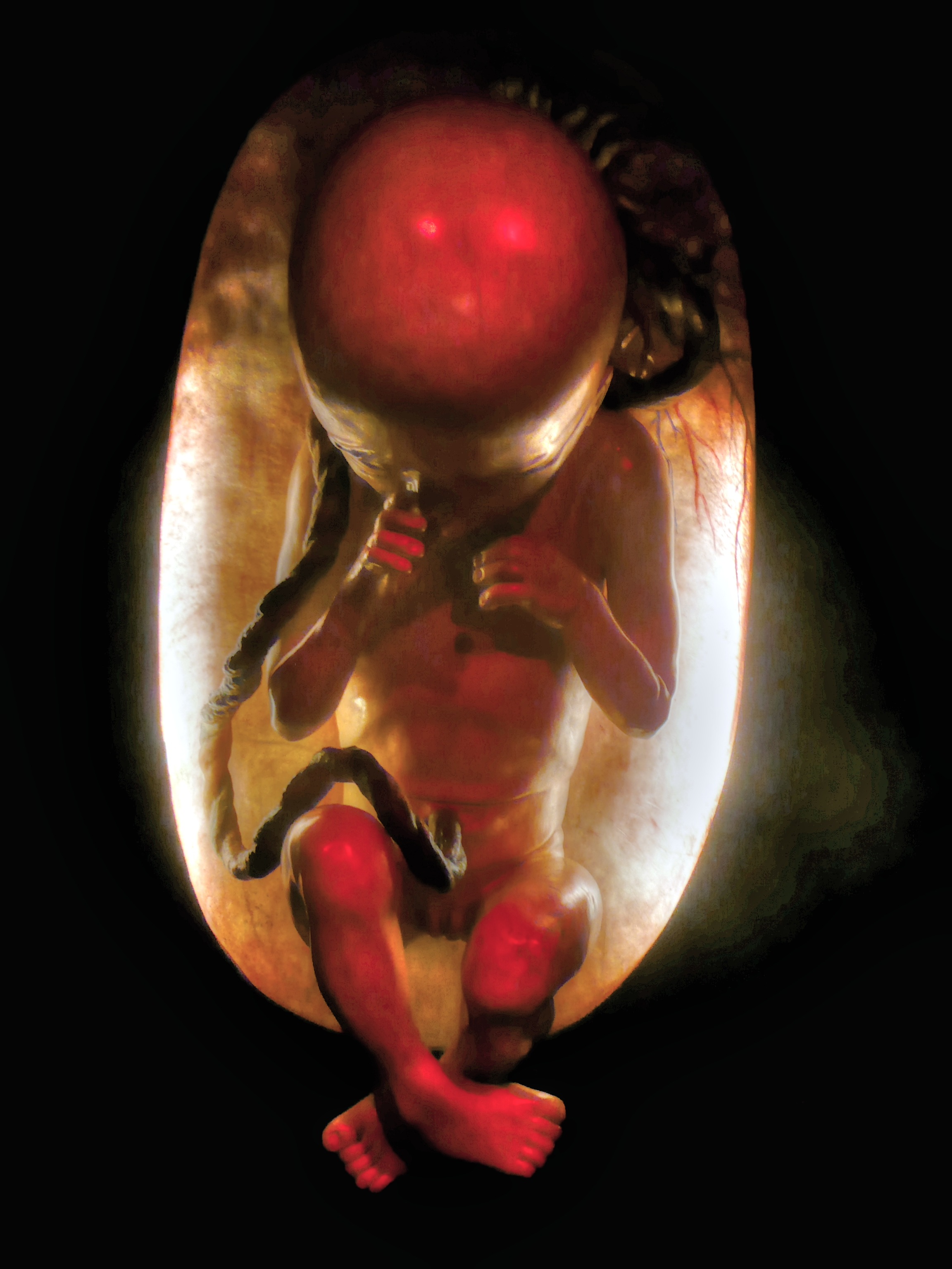 Photographs from London